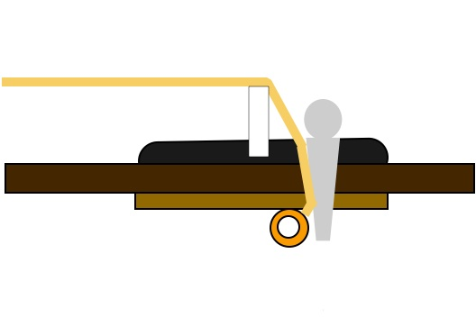 Cross-section view of properly seated acoustic guitar string...ball end is under bridge plate not under the end of the bridge pin. - Corda agganciata piolo chitarra